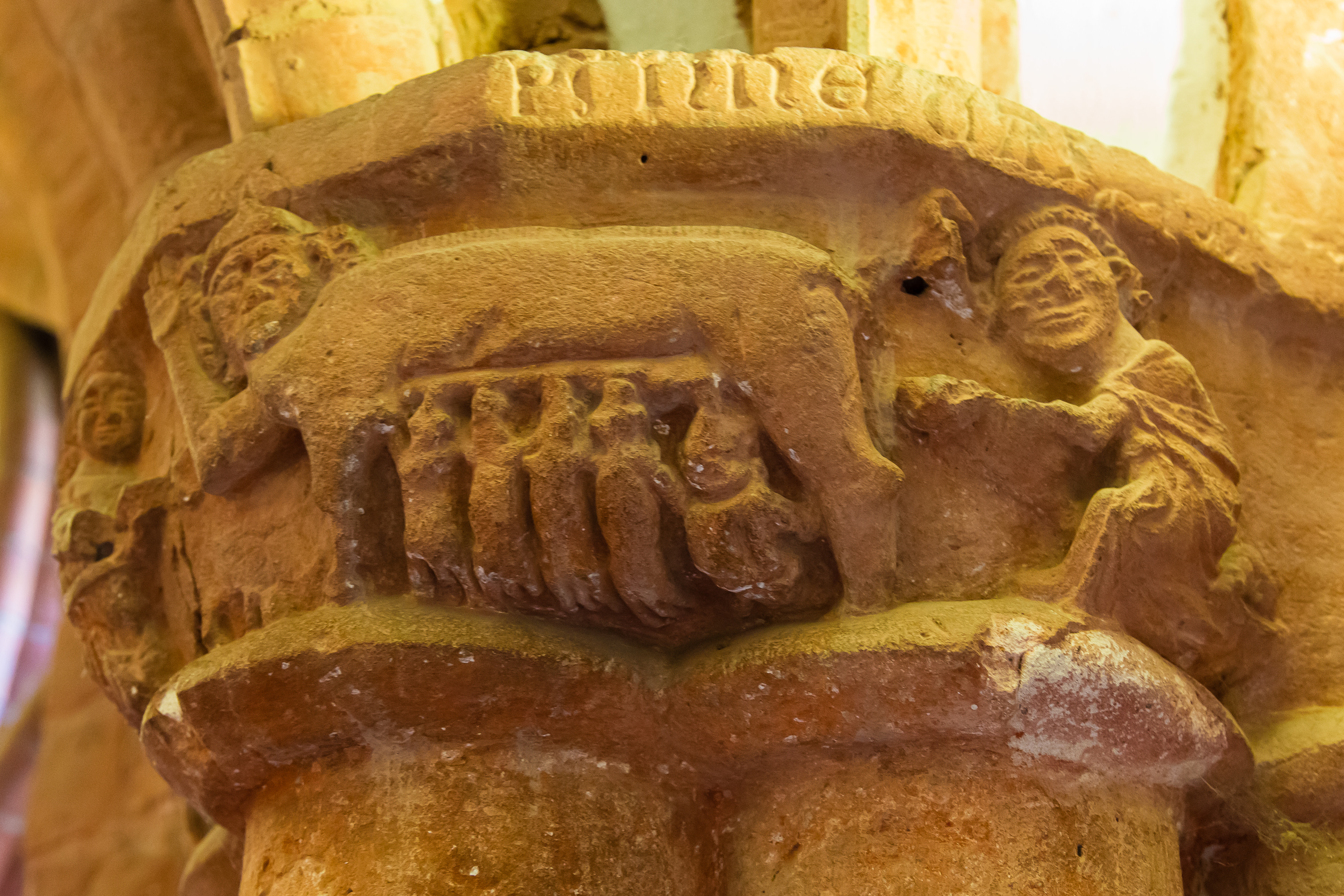 Representation of a "Judensau" in the capital of a column in Brandenburg Cathedral